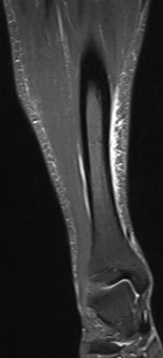 Coronal STIR (fat signal suppressed) MRI of a lower leg showing high signal (bright) areas around the tibia as signs of shin splints.